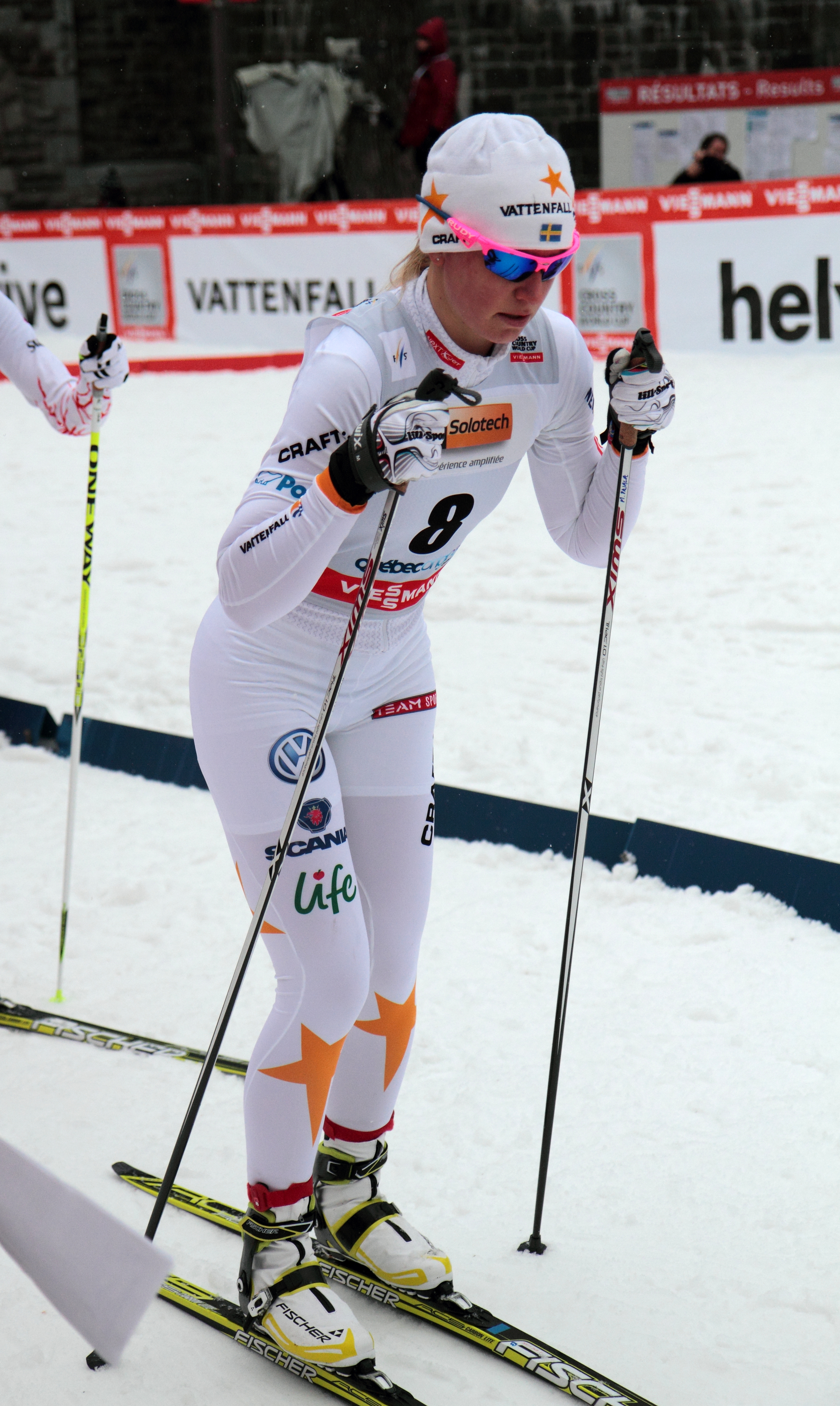 Magdalena Pajala, FIS Cross-Country World Cup 2012, Quebec, Canada.